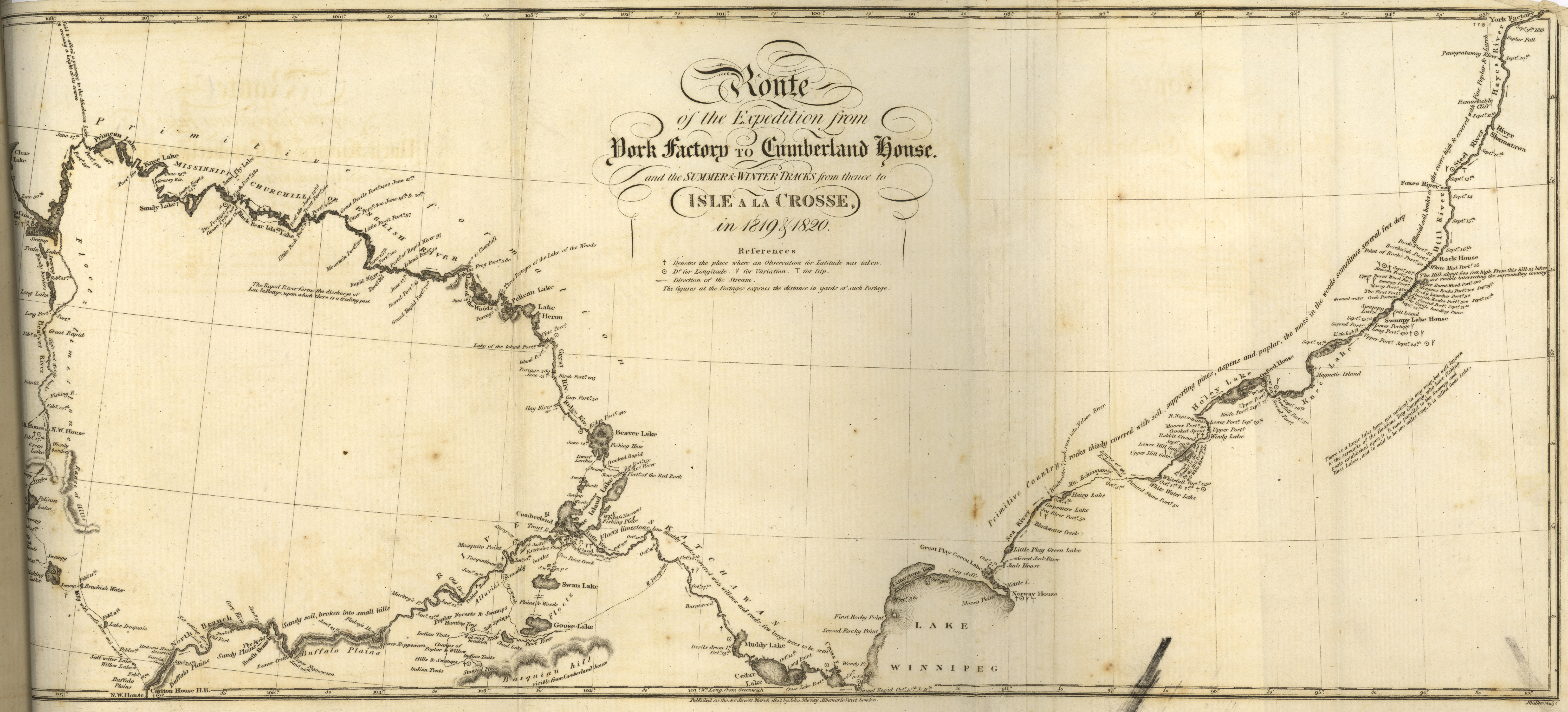 Franklin, John. Route of the Expedition from York Factory to Cumberland House and the Summer & Winter Tracks from thence to Isle a la Crosse in 1819 & 1920 [map]. Scale not given. In: John Franklin. Narrative of a Journey to the Shores of the Polar Sea, in the Years 1819, 20, 21, and 22. London: John Murray, 1823. Shows the places where an Observation for Latitude was taken. Figures at the portages express the distance in yards. Captain John Franklin's two land expeditions to the Arctic traveled through the area which today is Manitoba, and added substantially to the scientific knowledge of both the northern and southern parts of the province. On the this map showing the Franklin expeditions’ journey in 1819 from York Factory to the Saskatchewan river there are comments on vegetation, depth of soil, and the fact that the bedrock is of a Primitive age. This is probably the first recording of the relative ages of rocks on any published map of the Manitoba area. Progress of the expedition can be easily followed since all the camping places are marked. On these maps we see the first results of the application of scientific knowledge by experienced scientific observers to the recording of data on the West. The base maps were from Arrowsmith, but in turn Arrowsmith and other cartographers obtained important information from the Franklin's Expeditions. (Warkentin and Ruggles. Historical Atlas of Manitoba. map 81, p. 206) Related Map: Route of the Expedition from Isle a la Crosse to Fort Providence in 1819 & 20 (1823) Image Courtesy of University of Manitoba : Archives & Special Collections